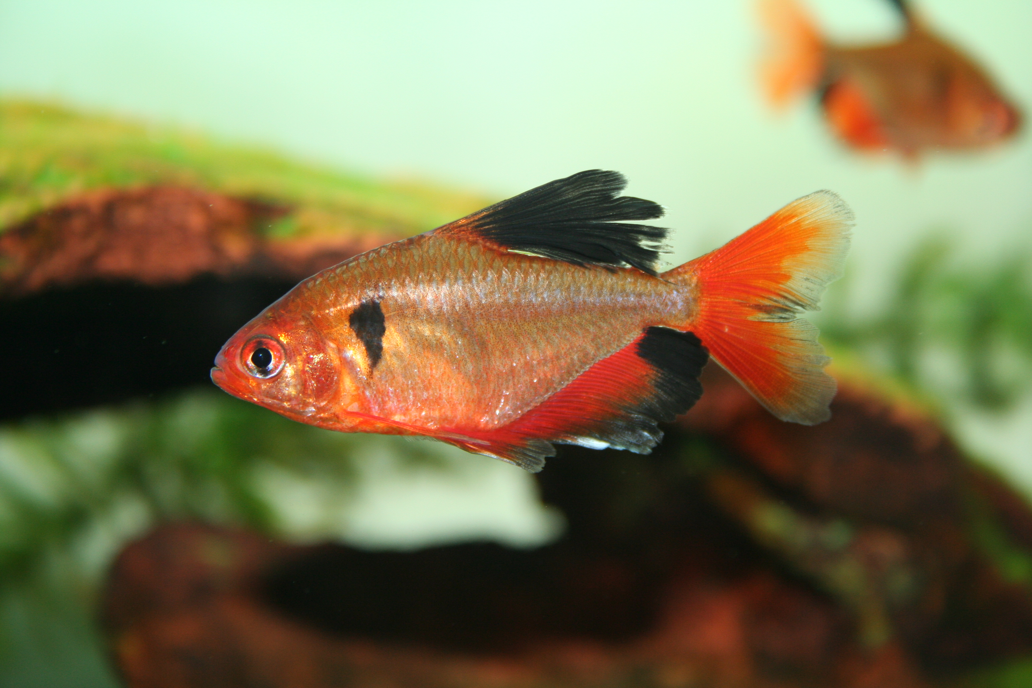 My own photo of a long-finned Serpae tetra from my aquarium.